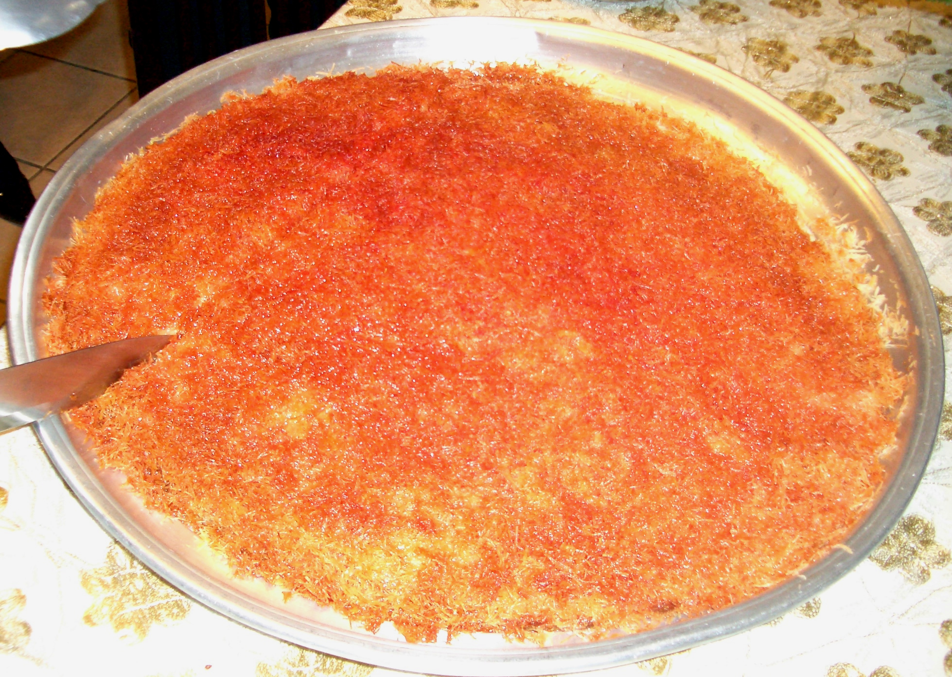 Kinafa